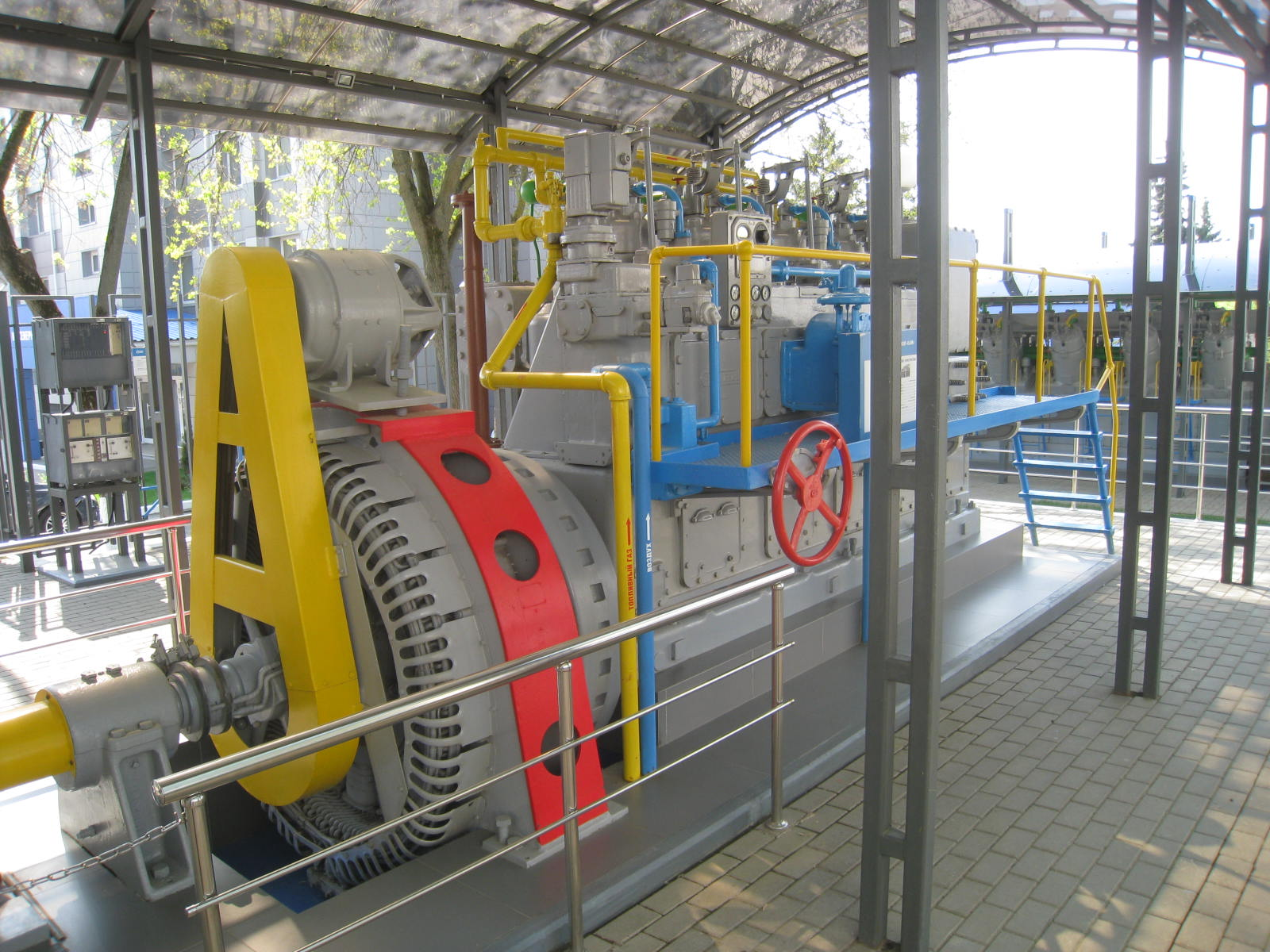 Gas engine generator plant Clark DG-4 was supplied by Clark Bros. Co together with General Electric in 1945-1946 for use as emergency power supply plant at gas compressor stations of cross-country gas pipeline Saratov - Moscow.